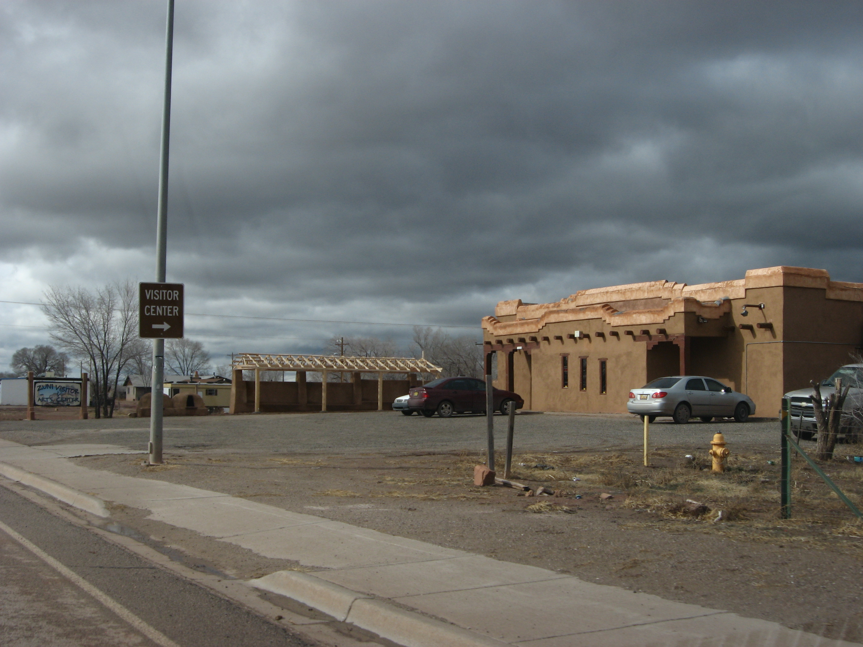 Zuni Pueblo Visitor Center, New Mexico